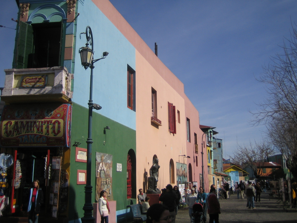 Caminito road - Buenos Aires - Argentina